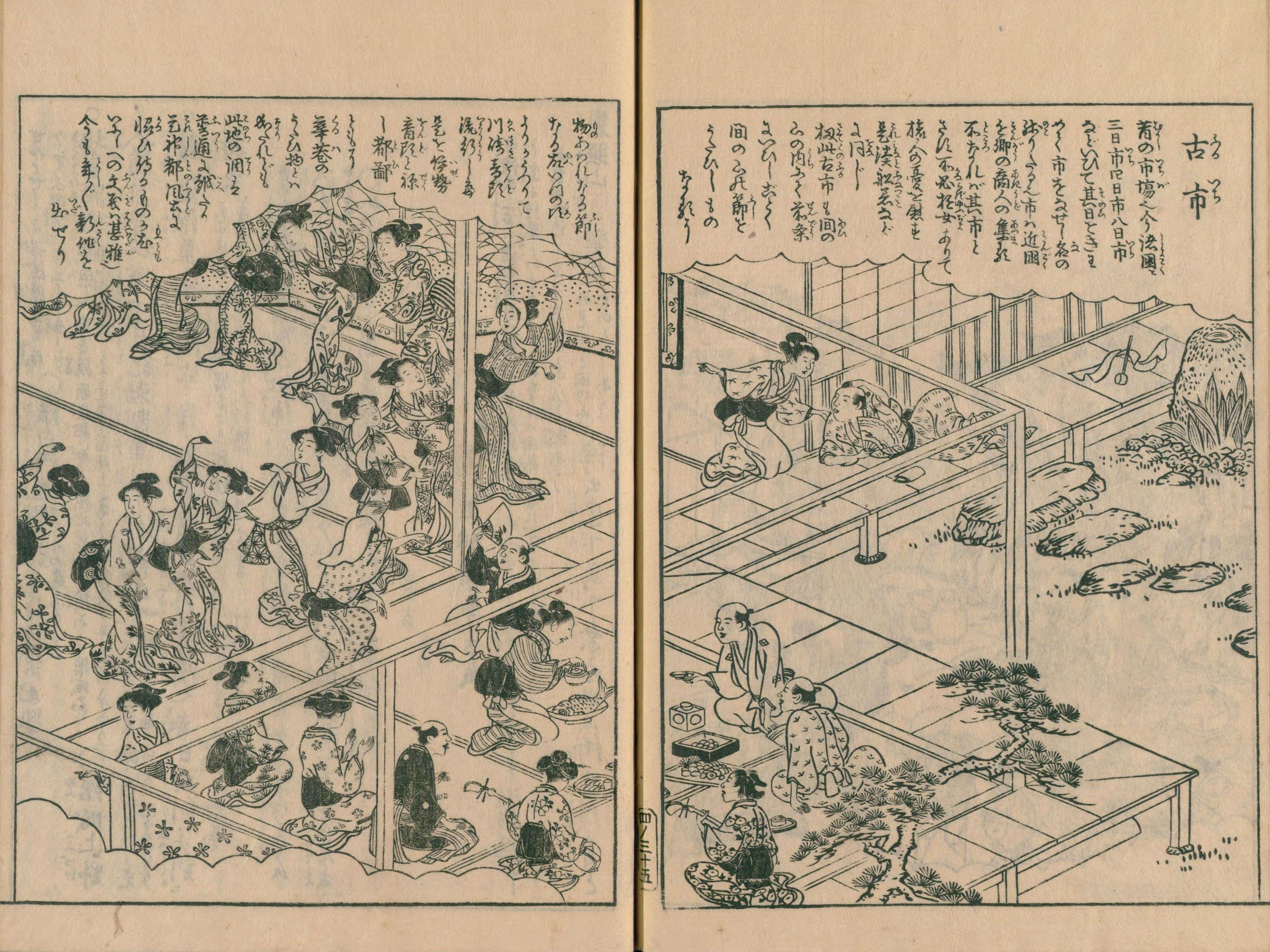 Furuichi in Ise sangū Meisho zue vol. 4